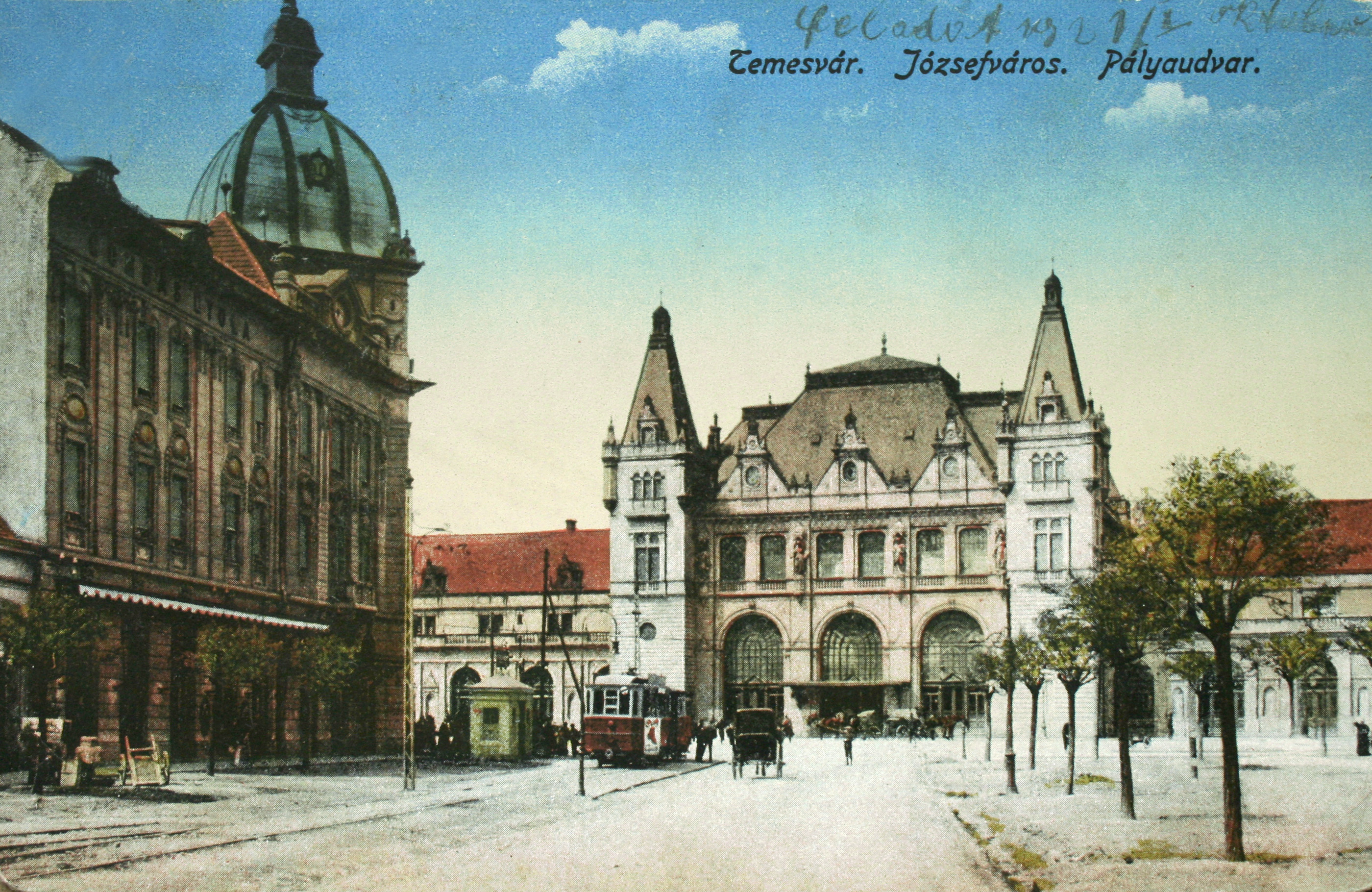 Railway station of Temesvár-Józsefváros, now Timişoara-Iosefin